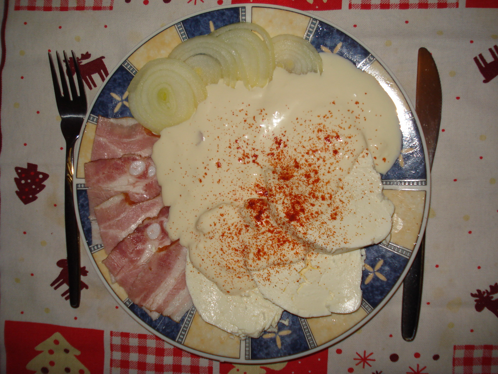 Curd cheese with cream, served with bacon and onion, from Medjimurje County, Croatia